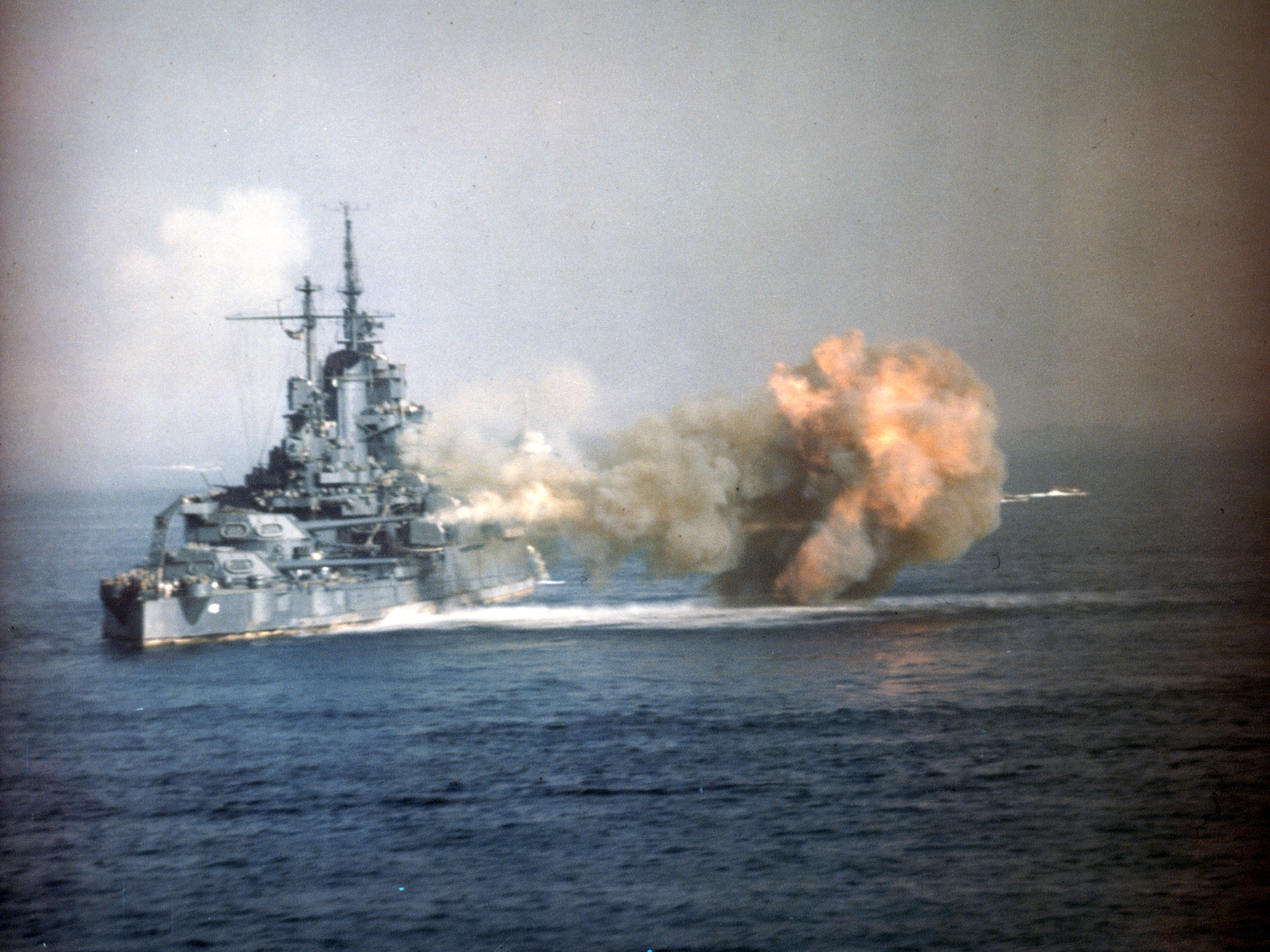 The U.S. Navy battleship USS Idaho (BB-42) fires the 14"/50 guns of turret Three at nearly point-blank range, during the bombardment of Okinawa, 1 April 1945.